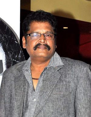 K. S. Ravikumar at the first look launch of 'Policegiri'